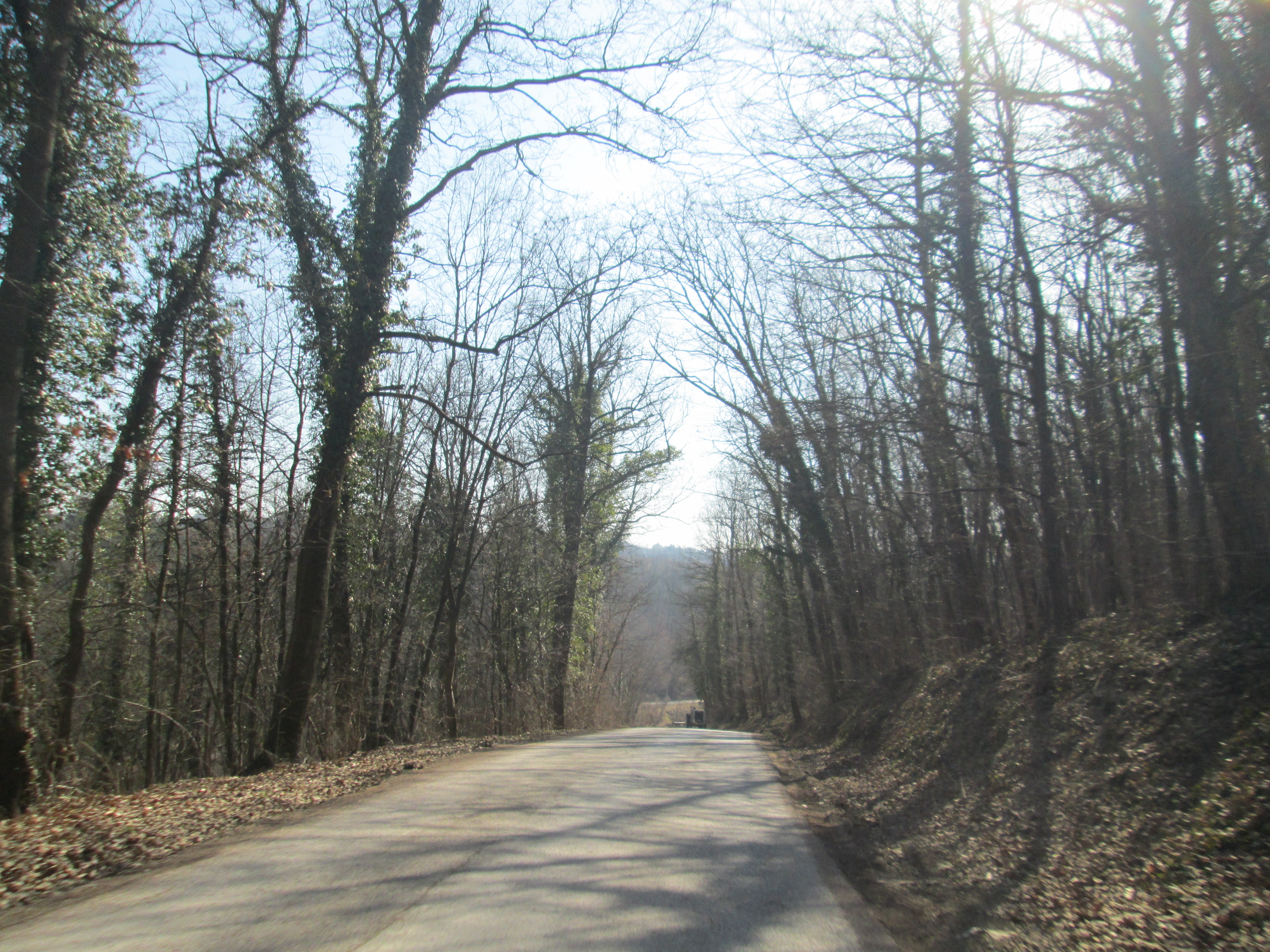 View over the village. Српски (ћирилица): Поглед на село.